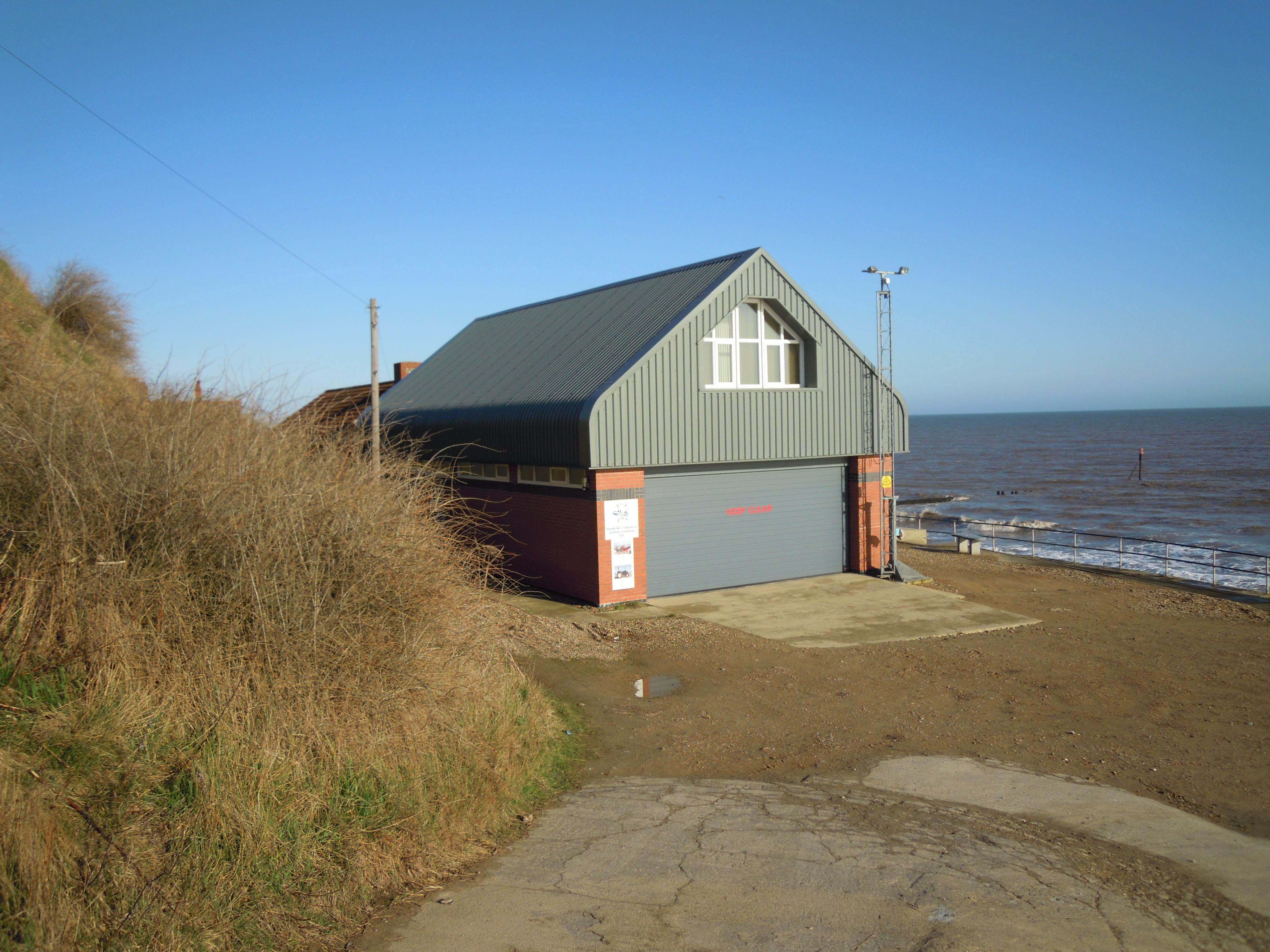 Mundesley Lifeboat Station, Mundesley, Norfolk